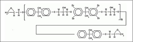 Bromadas